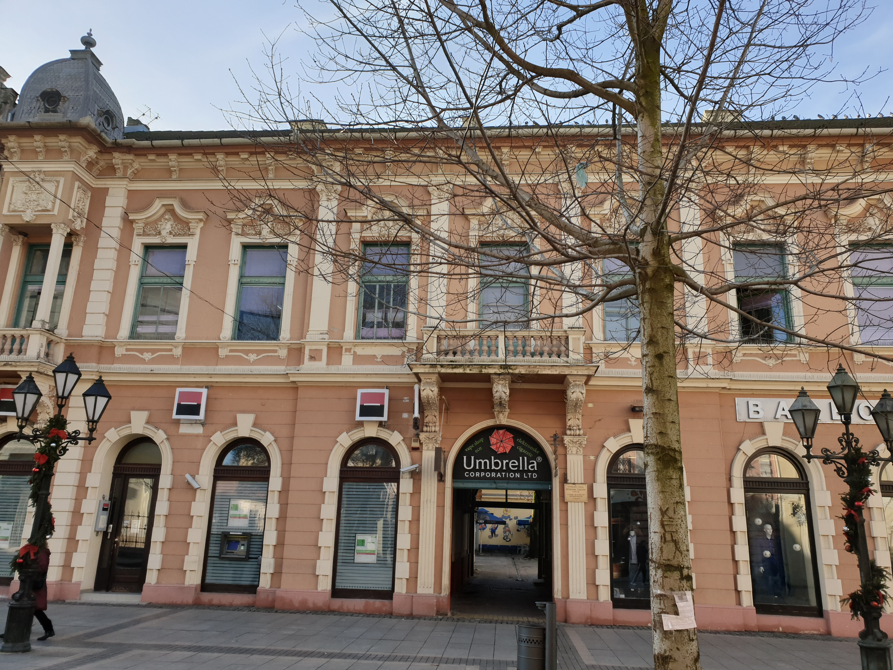 Palata Nikolića